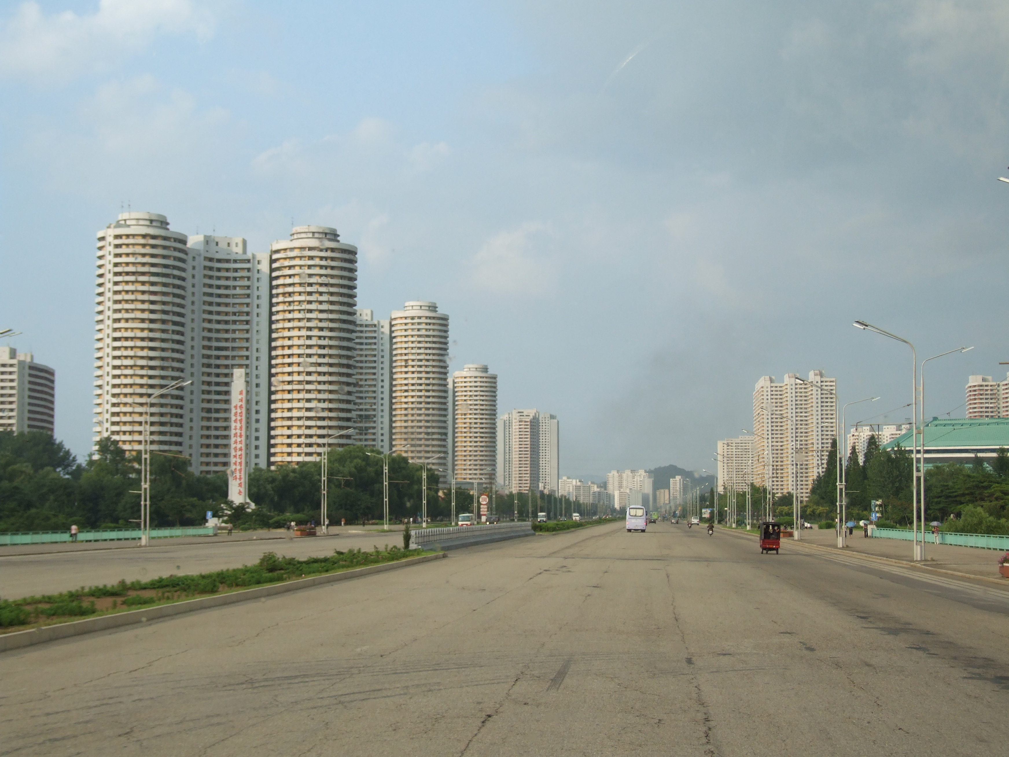 Street in Pyongyang